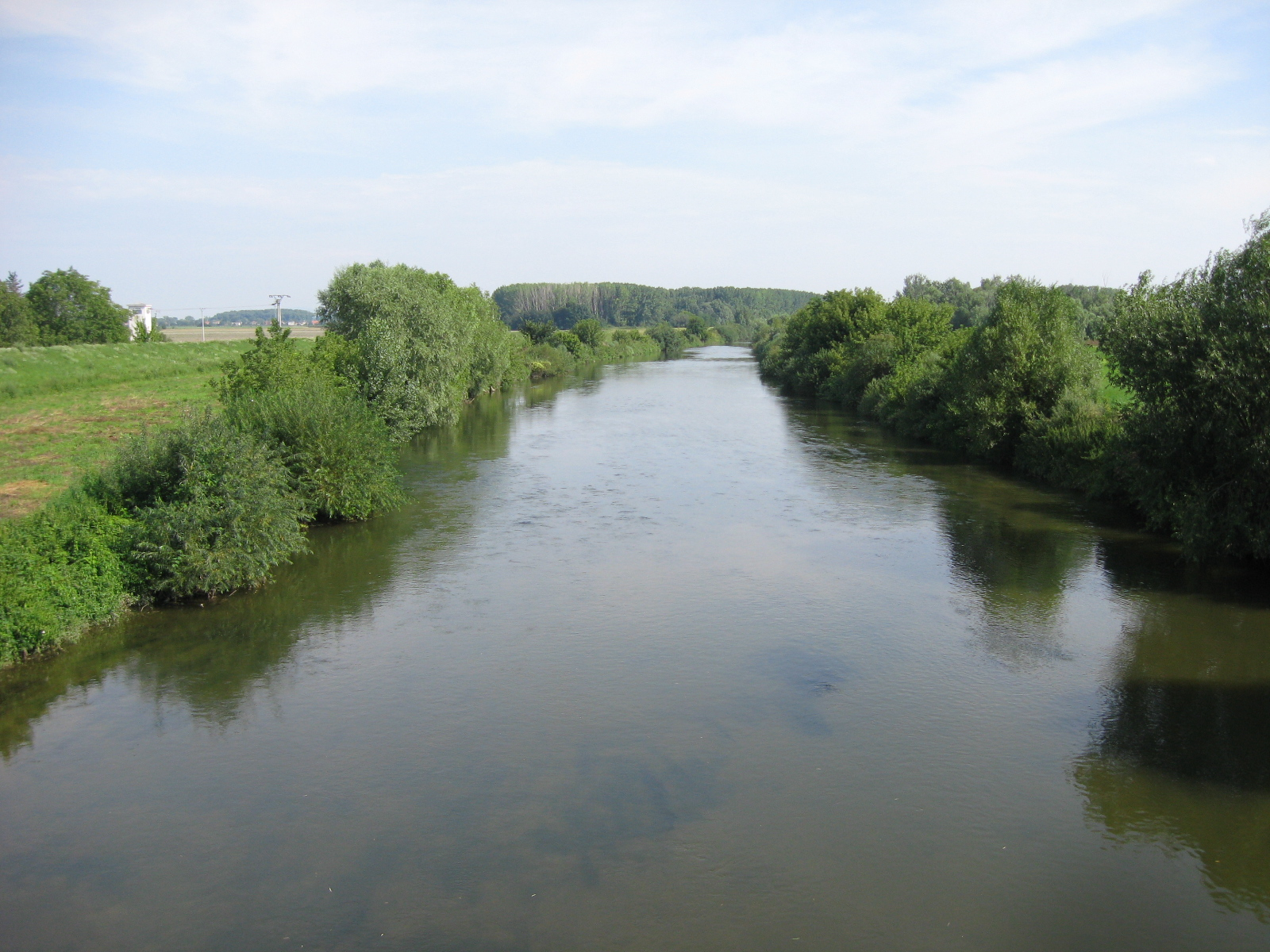 River Cetínka (the parent branch of Nitra river) in Nitriansky Hrádok, quarter of Šurany, Slovakia.